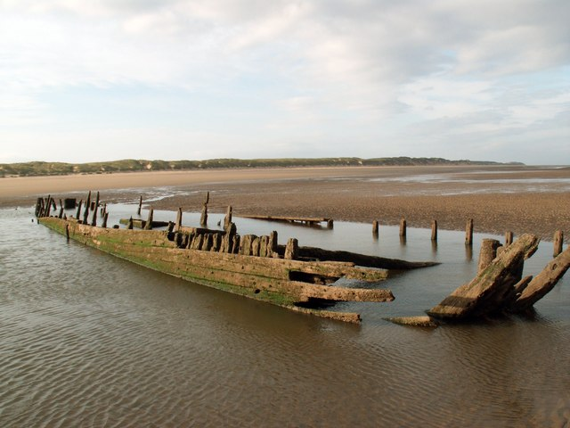 Star of Hope Wrecked 1883